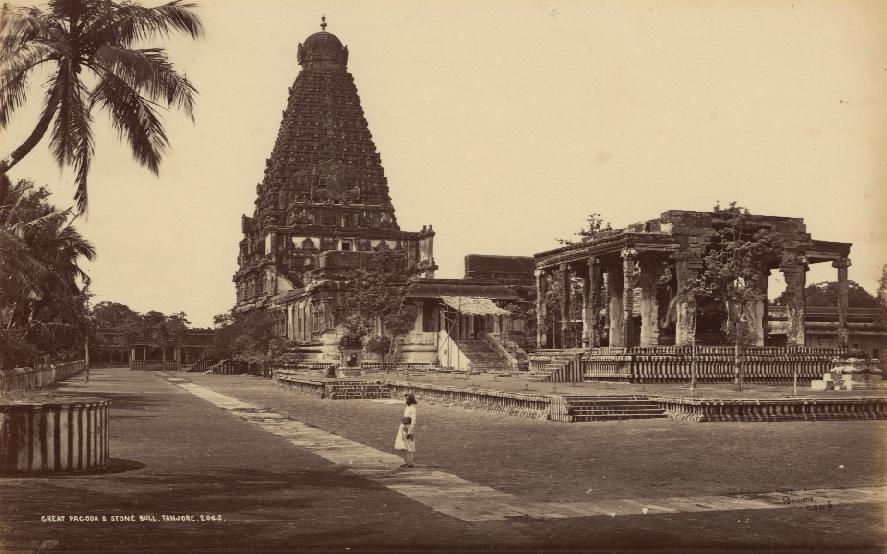 "Great Pagoda and Stone Bull, Tanjore," by Samuel Bourne, c.1860's